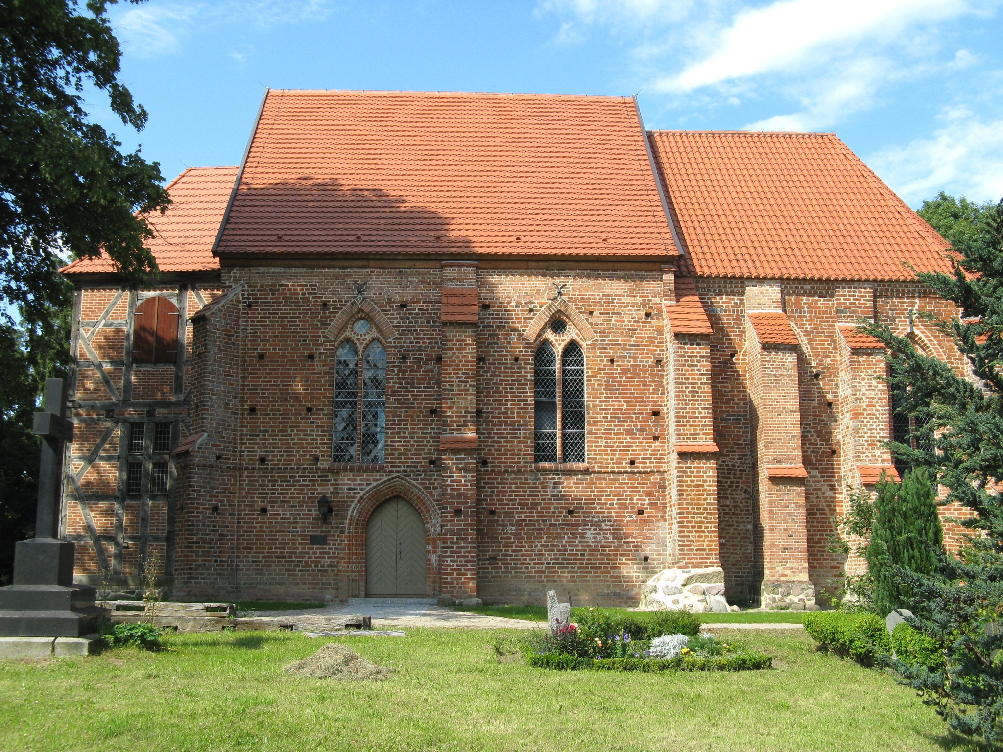 Church in Bibow, Mecklenburg-Vorpommern, Germany